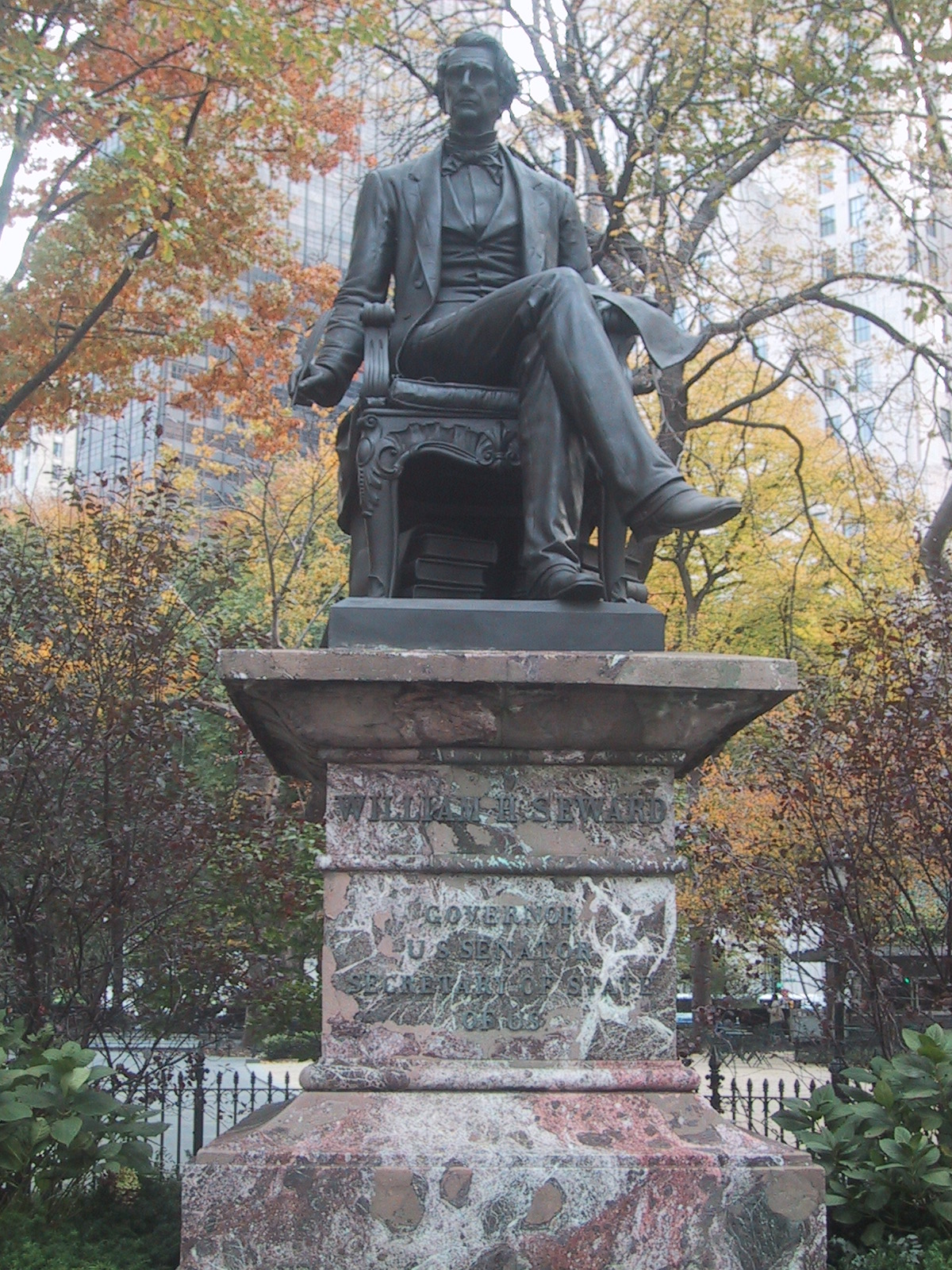 Statue of William H. Seward located in Madison Square in New York City.